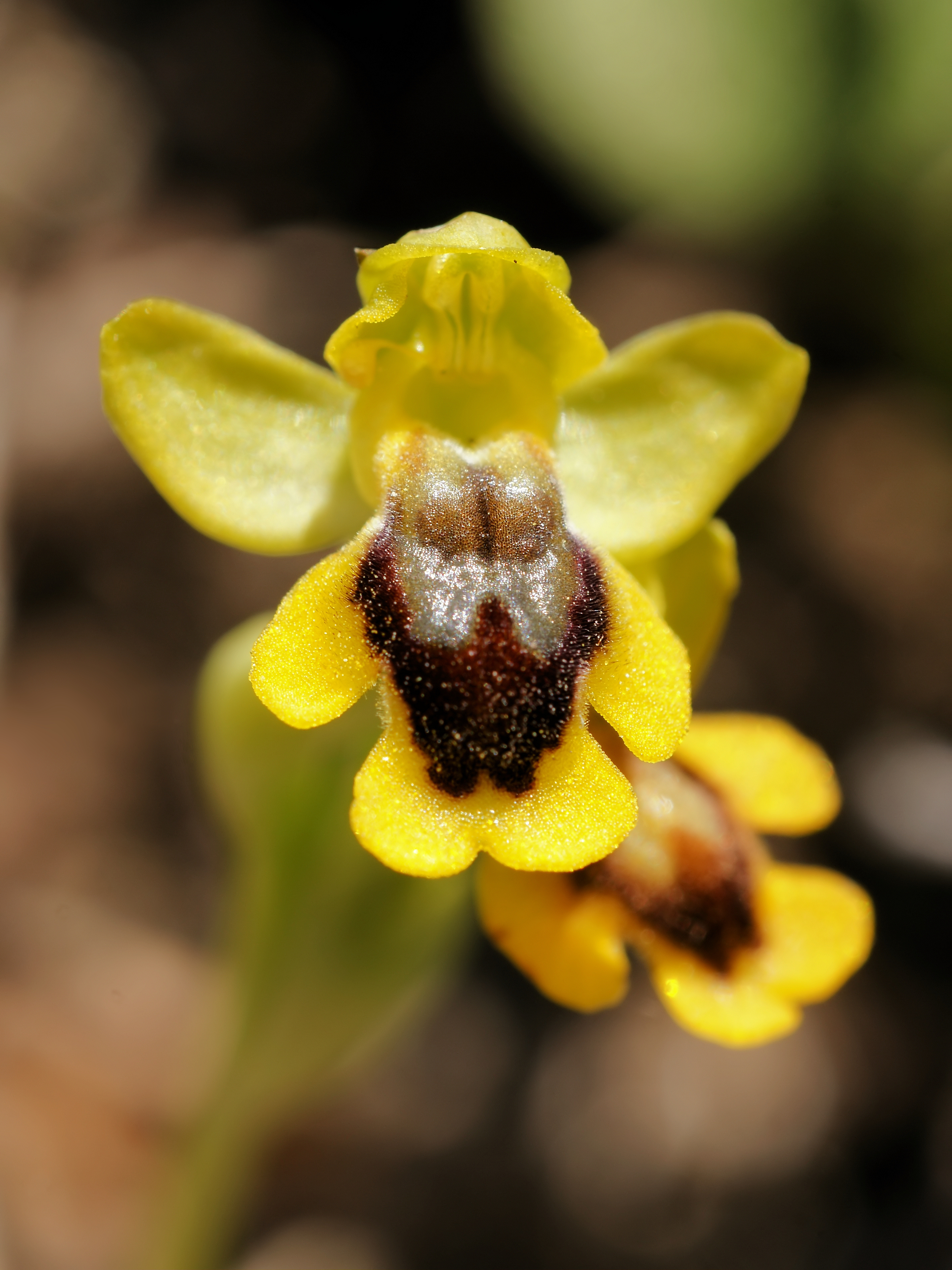 Yellow Ophrys. Approximate co-ordinates: plant located within 5 km from Putzu Idu, Sardinia, Italy